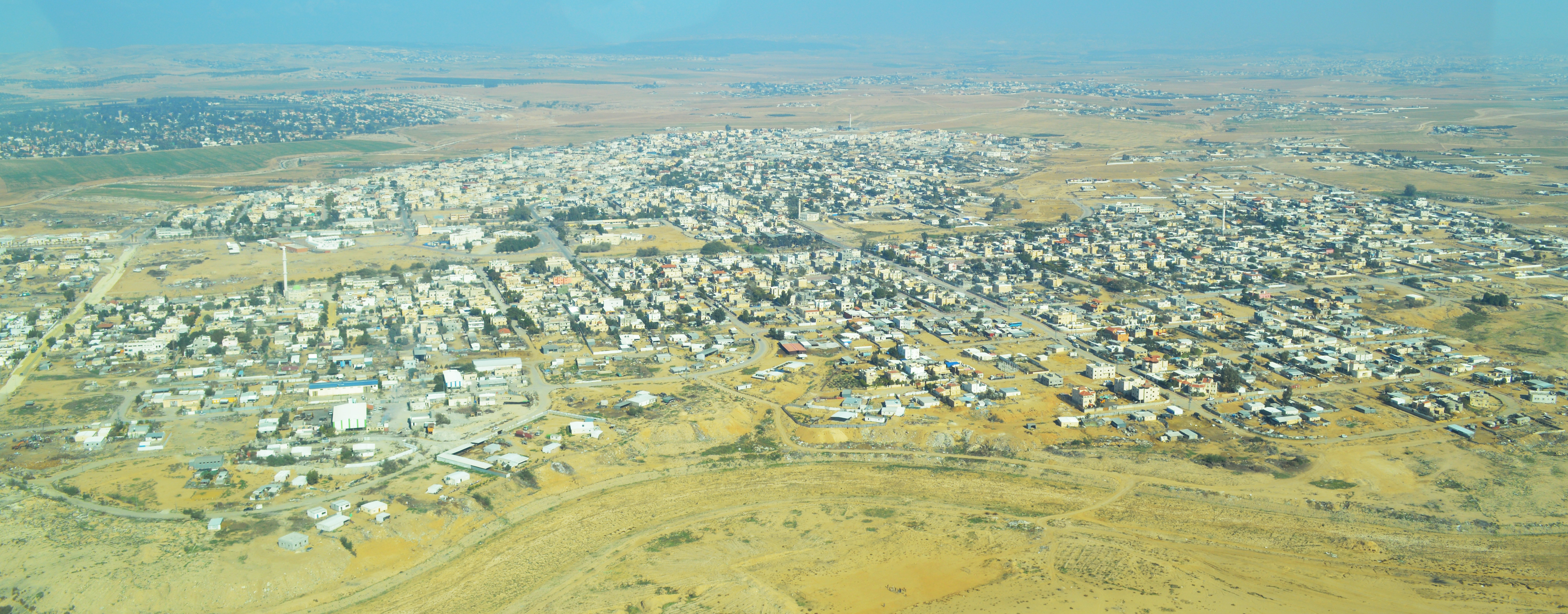 Tel Sheva Aerial View